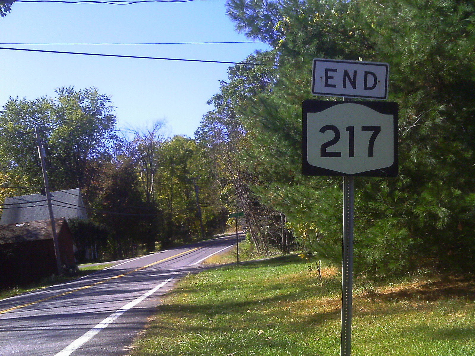 New York State Route 217 at its terminus in Claverack, New York with New York State Route 23. The intersection is around the curve.